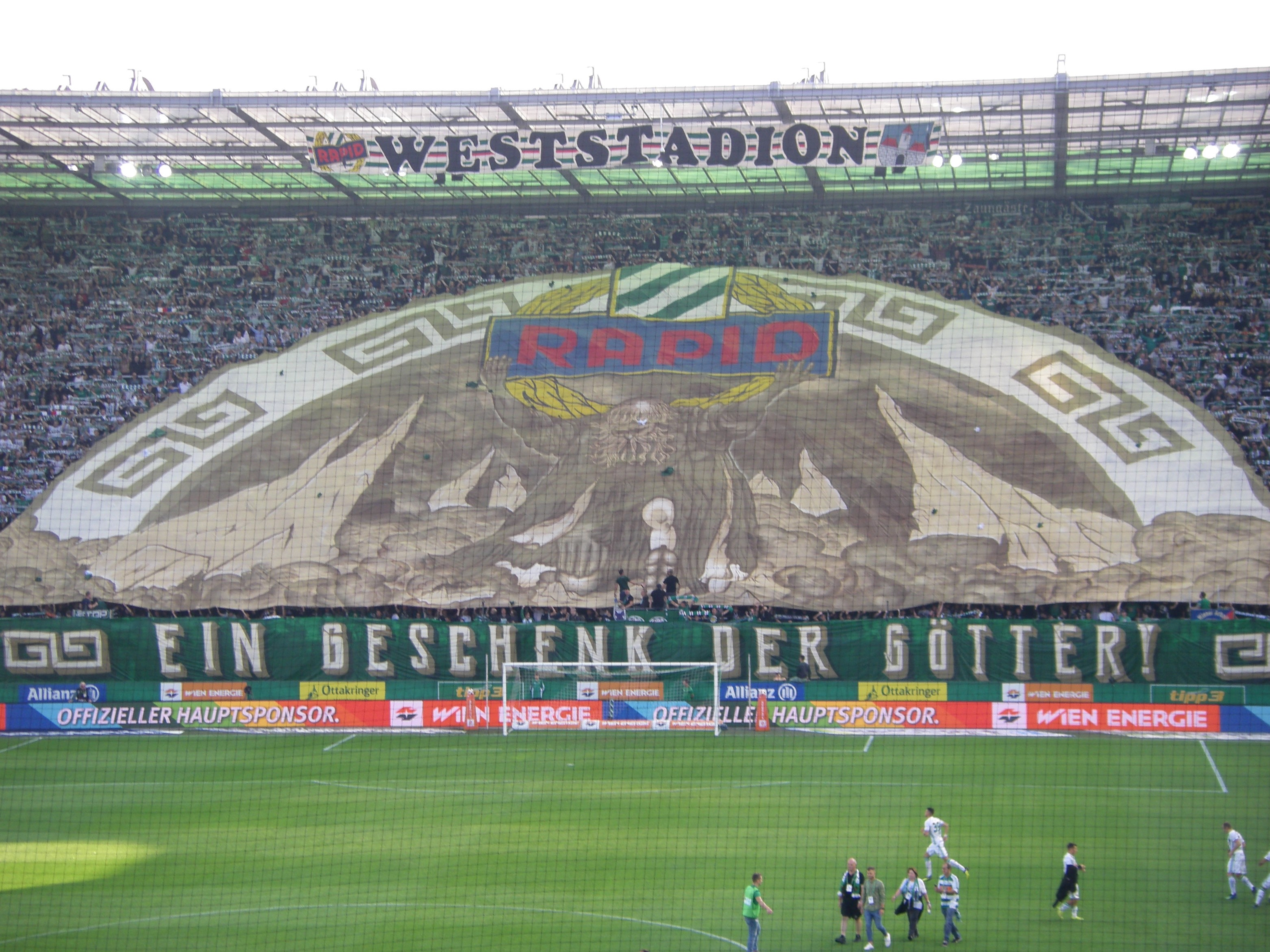 Stand of Rapid-fans before the Wiener Derby on September 16, 2018